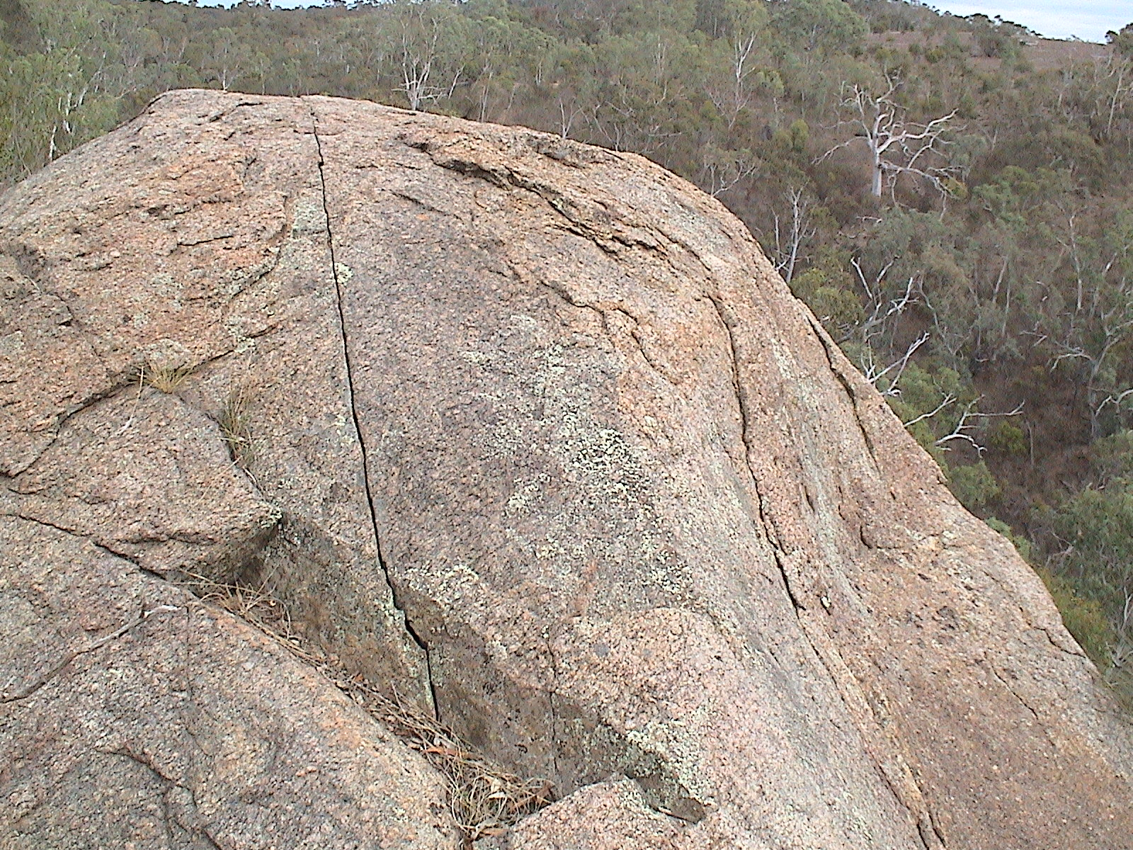 A recent tectonic joint intersecting older exfoliation joints in granite gneiss, near Lizard Rock, Parra Wirra Recreation Park, South Australia, 14 May 2012. Note slight sinistral direction of movement along the joint, indicating on first impression that the valley floor is being upthrust relative to the hillside. A subsequent examination showed that this near-vertical joint terminates against the upper of two sub-horizontal joints which define a large wedge-shaped block pointing into and beneath the outcrop, indicating that lateral compression is also likely to be involved. Original filename = DSC12042.jpg